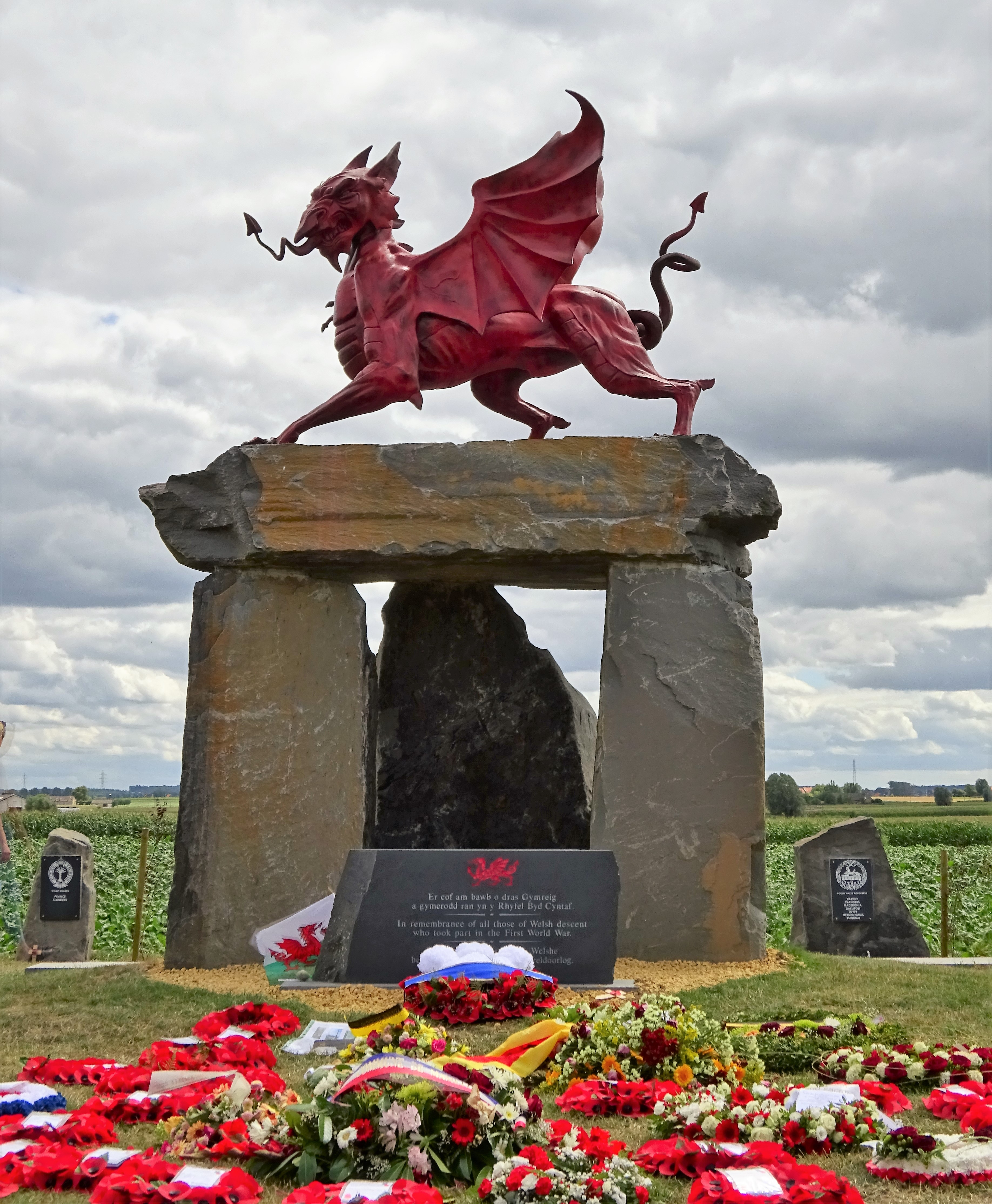 Welsh Memorial Park Ieper (Ypres), around a mile from Artillery Wood Cemetry; tribute to men from Wales killed during the First World War. It is in two parts: the Park itself, with cromlech and Welsh Dragon and nearby memorial stones to Hedd Wyn, by the side of the road, where he was killed in the Battle of Pilckem Ridge.